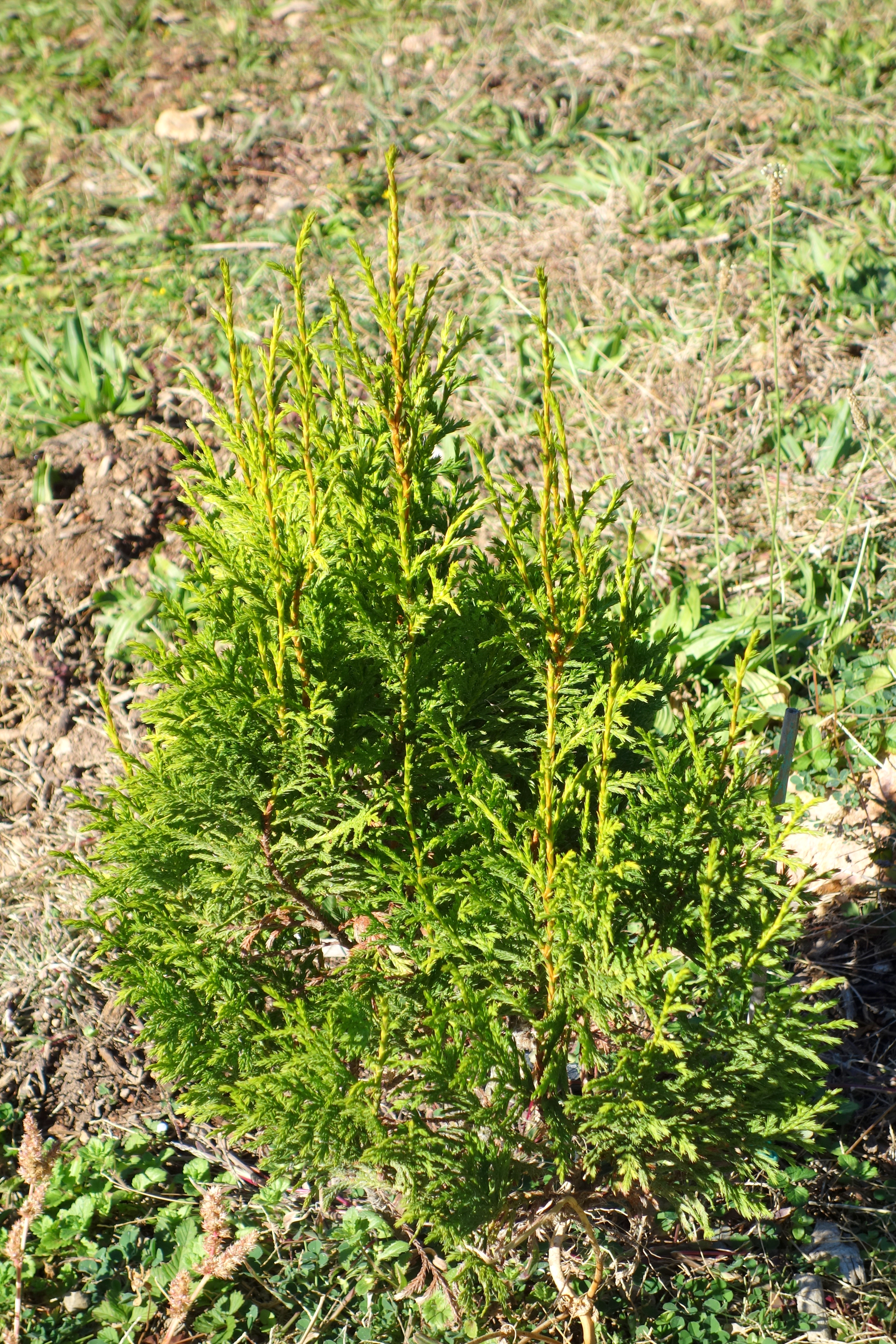 Botanical specimen in Quarryhill Botanical Garden, Glen Ellen, California, USA.